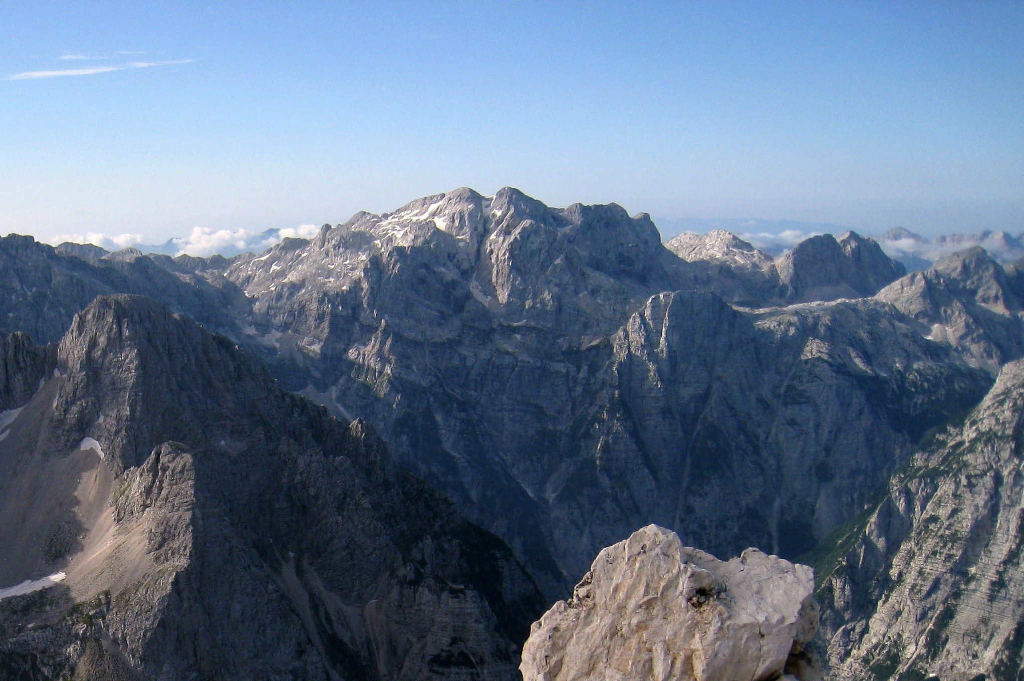 Kanjavec (central), seen from the Razor summit